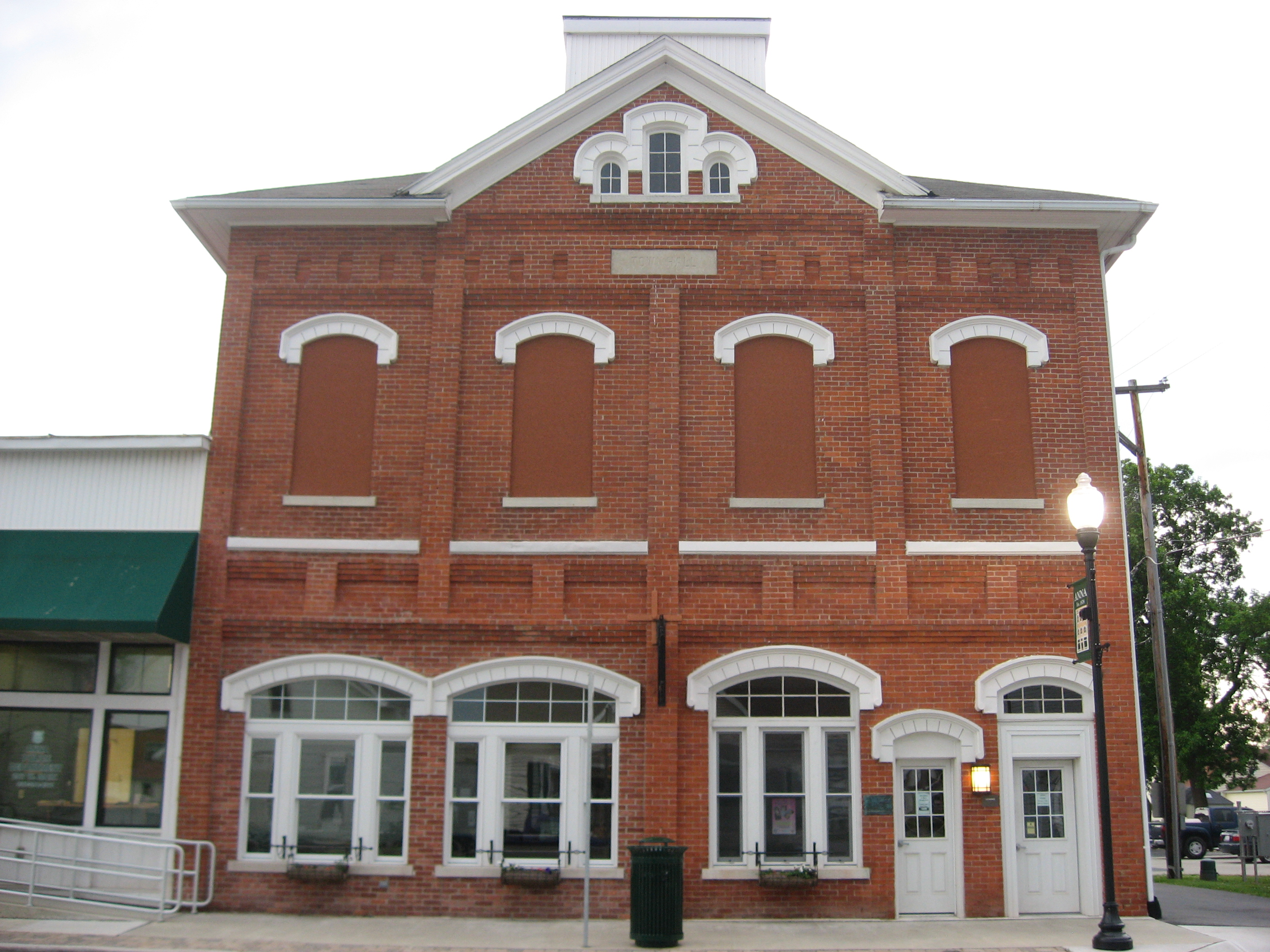 Front side of the village hall in Anna, Ohio, United States, located at 209 W. Main Street (State Route 119). Built in 1880, it is listed on the National Register of Historic Places.